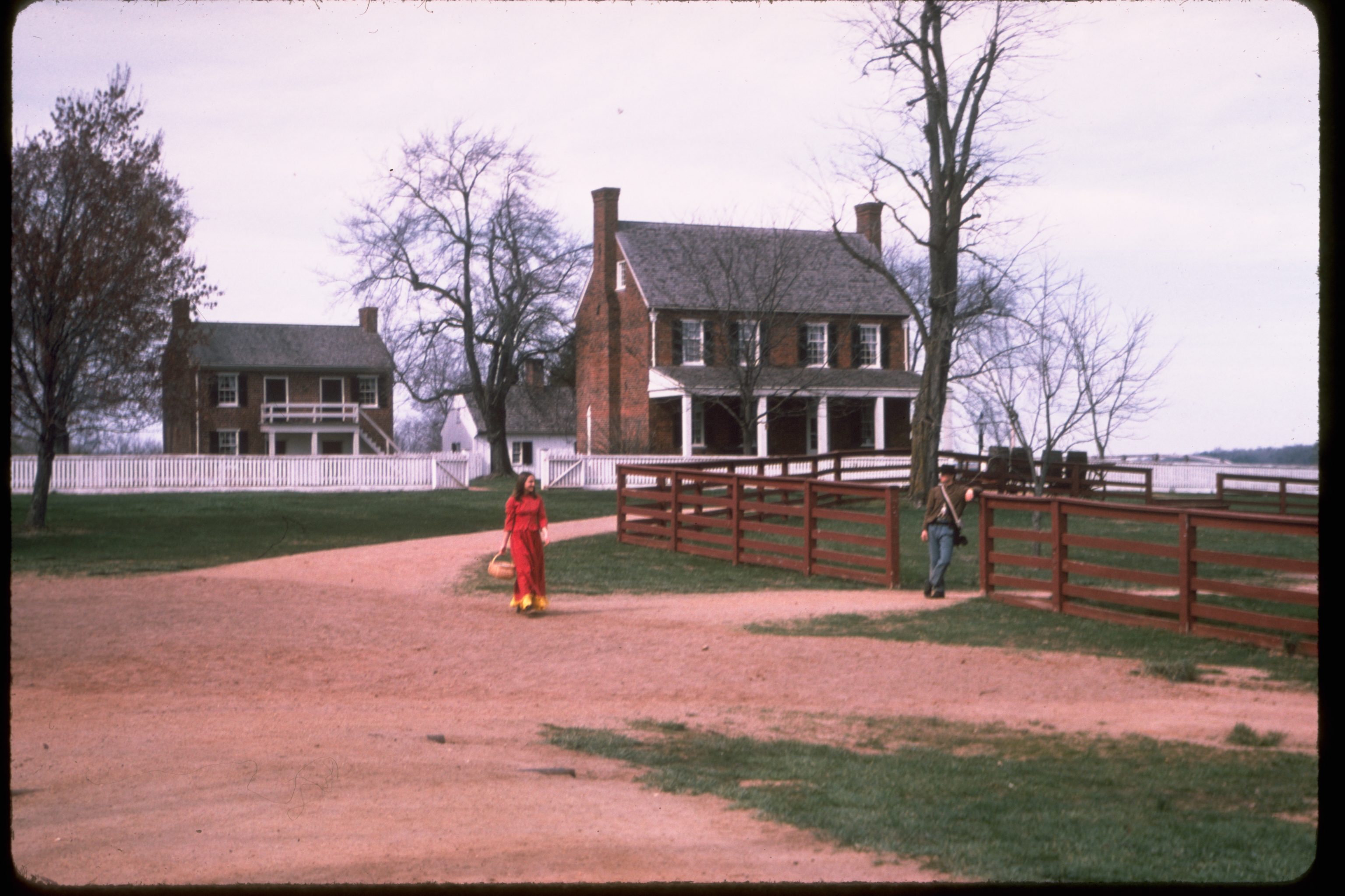 Location Appomatox Court House National Historical Park Description On Palm Sunday, 1865 General R. E. Lee surrendered to Lt. General U. S. Grant signaling the end of the Southern States' attempt to create a separate nation. The surrender set the stage for the emergence of an expanded and more powerful Federal government. In a sense the struggle between the Federalists and Anti-Federalists, in Philadelphia, over how much power the central government would hold had finally been settled. The end of the war led directly to the adoption of the 13th, 14th, and 15th amendments to the Constitution – ending slavery, providing citizenship and male suffrage.